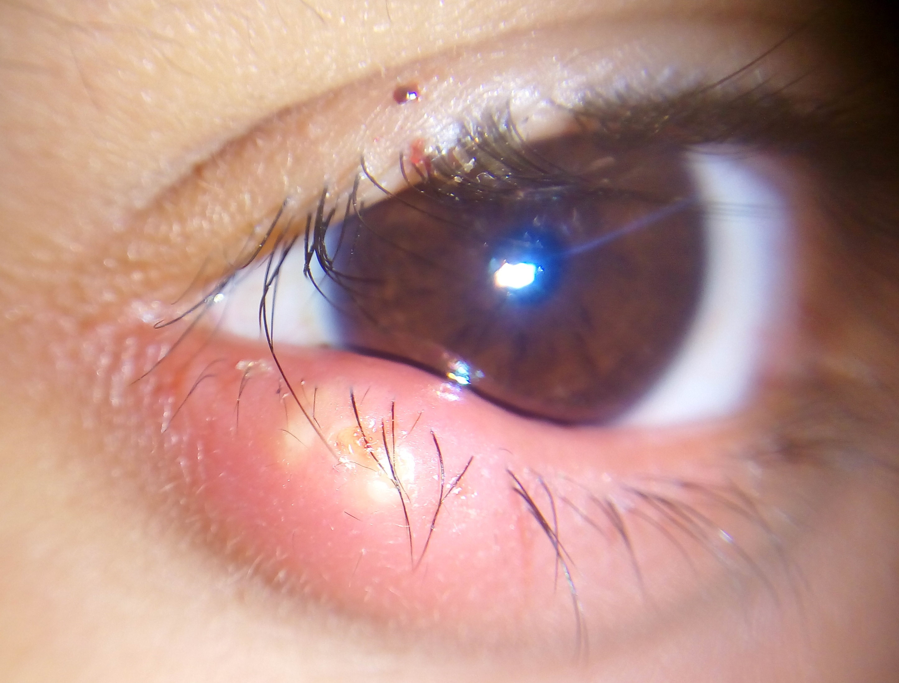 8 years old boy suffering from external hordeolum of lower lid